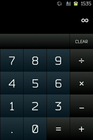 This android 2.2.1 calculator shows the symbol of infinity.